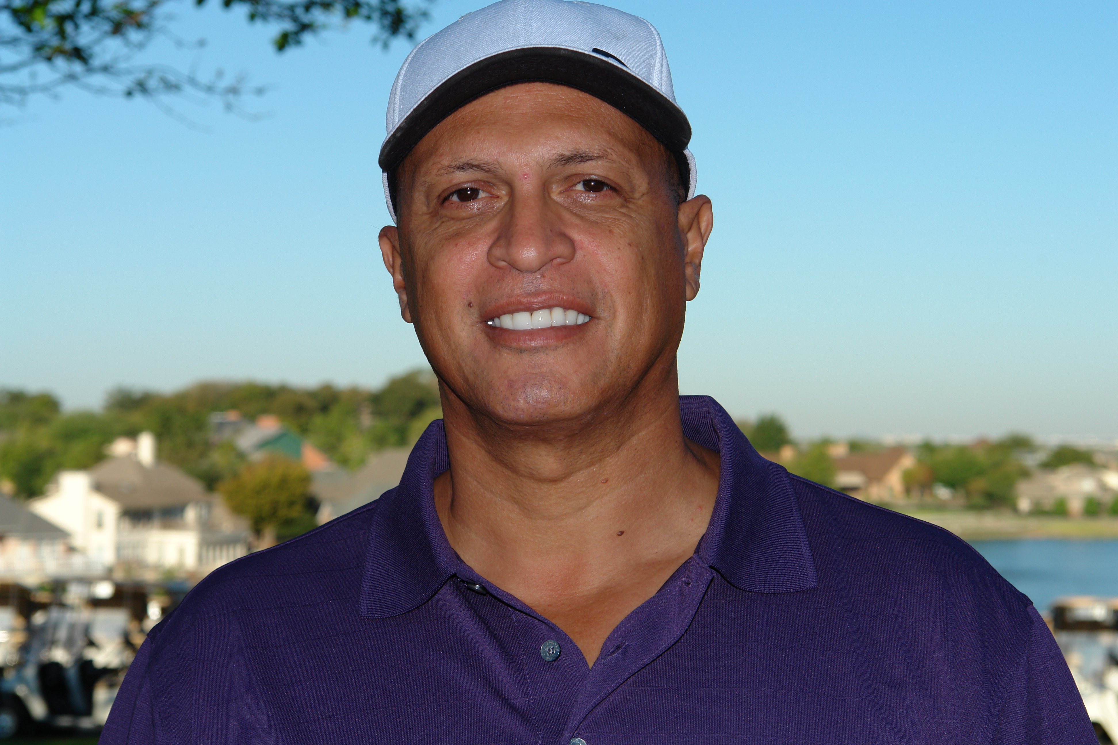 Jose Guzman at the Guzman 23 Foundation charity golf outing in 2011